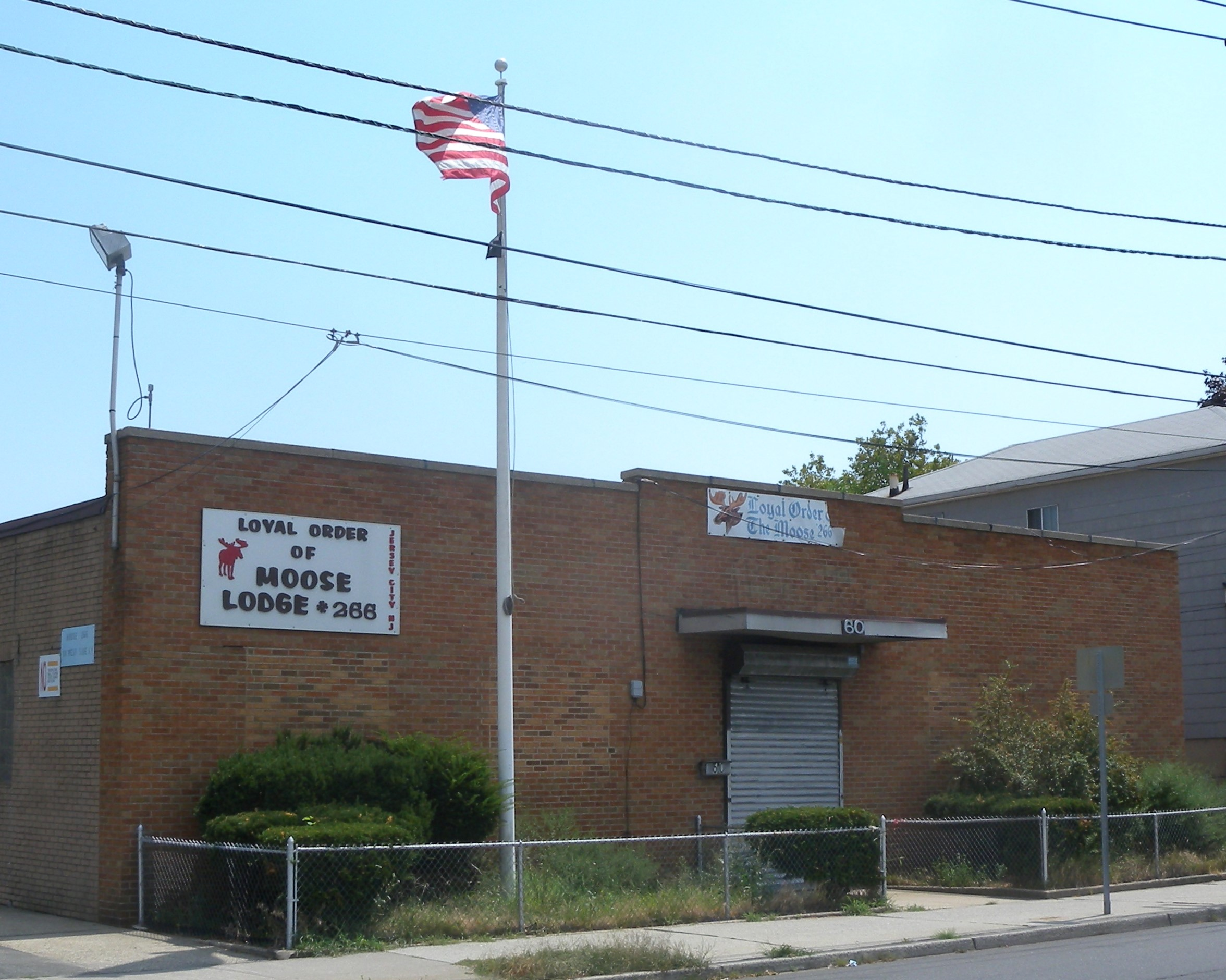 Looking southeast across West Side Avenue at Moose Lodge 266 on a mostly sunny midday.